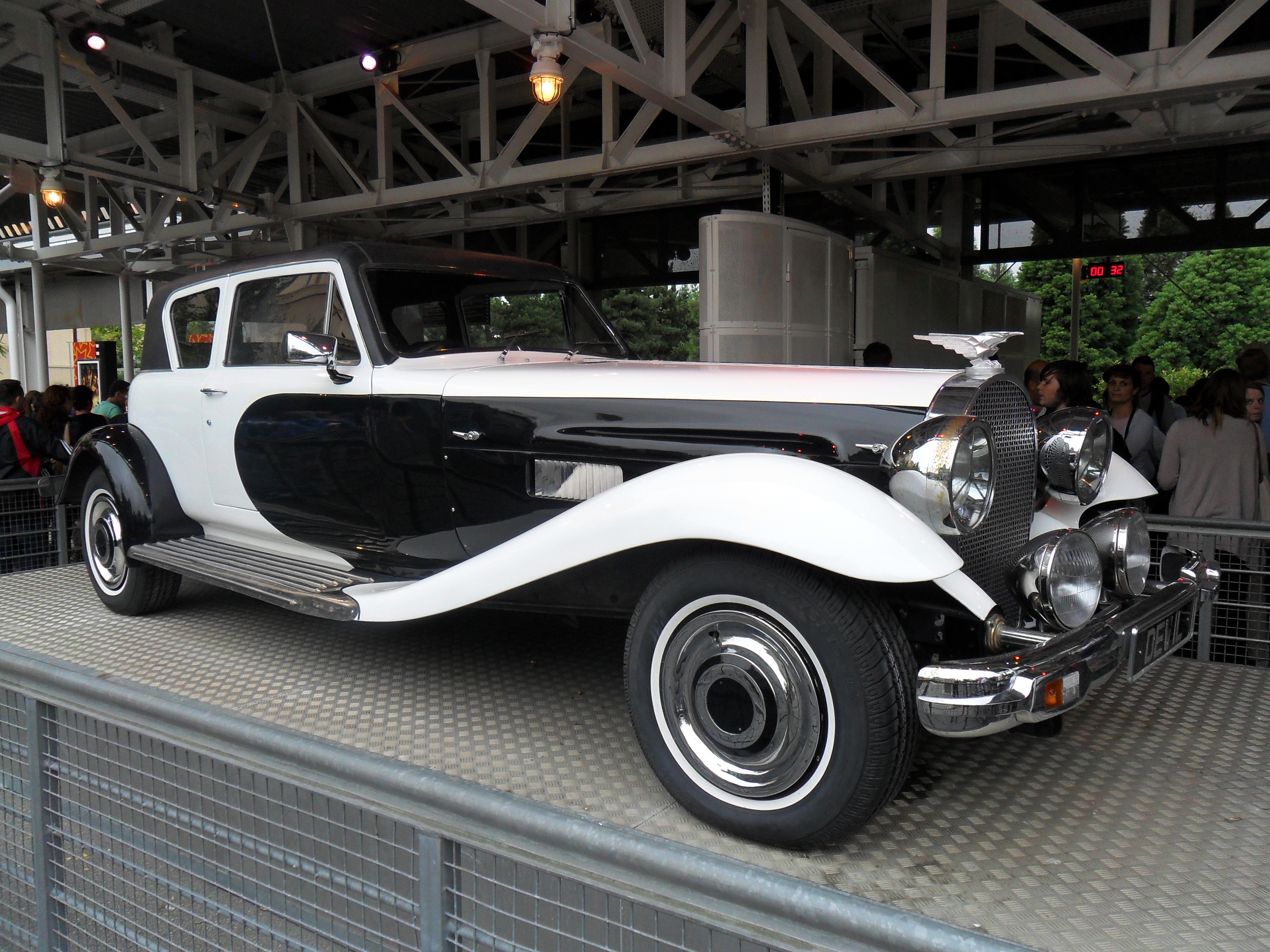 A customized Panther De Ville driven by Cruella de Vil from the film 102 Dalmatians at Walt Disney Studios Park in Disneyland Paris